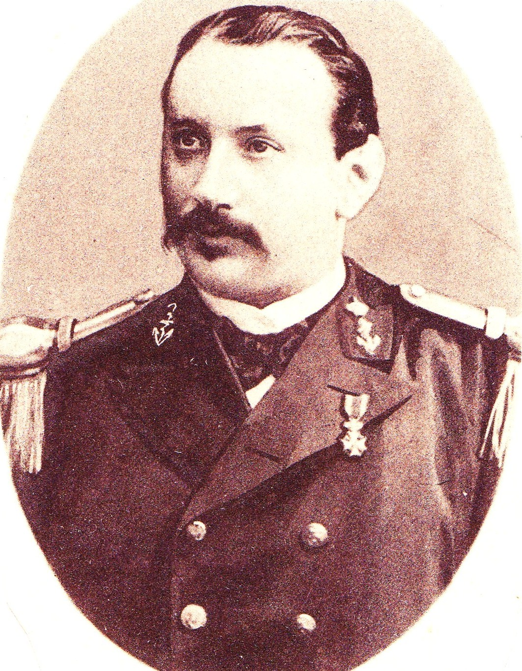 Zeeofficier Mathon